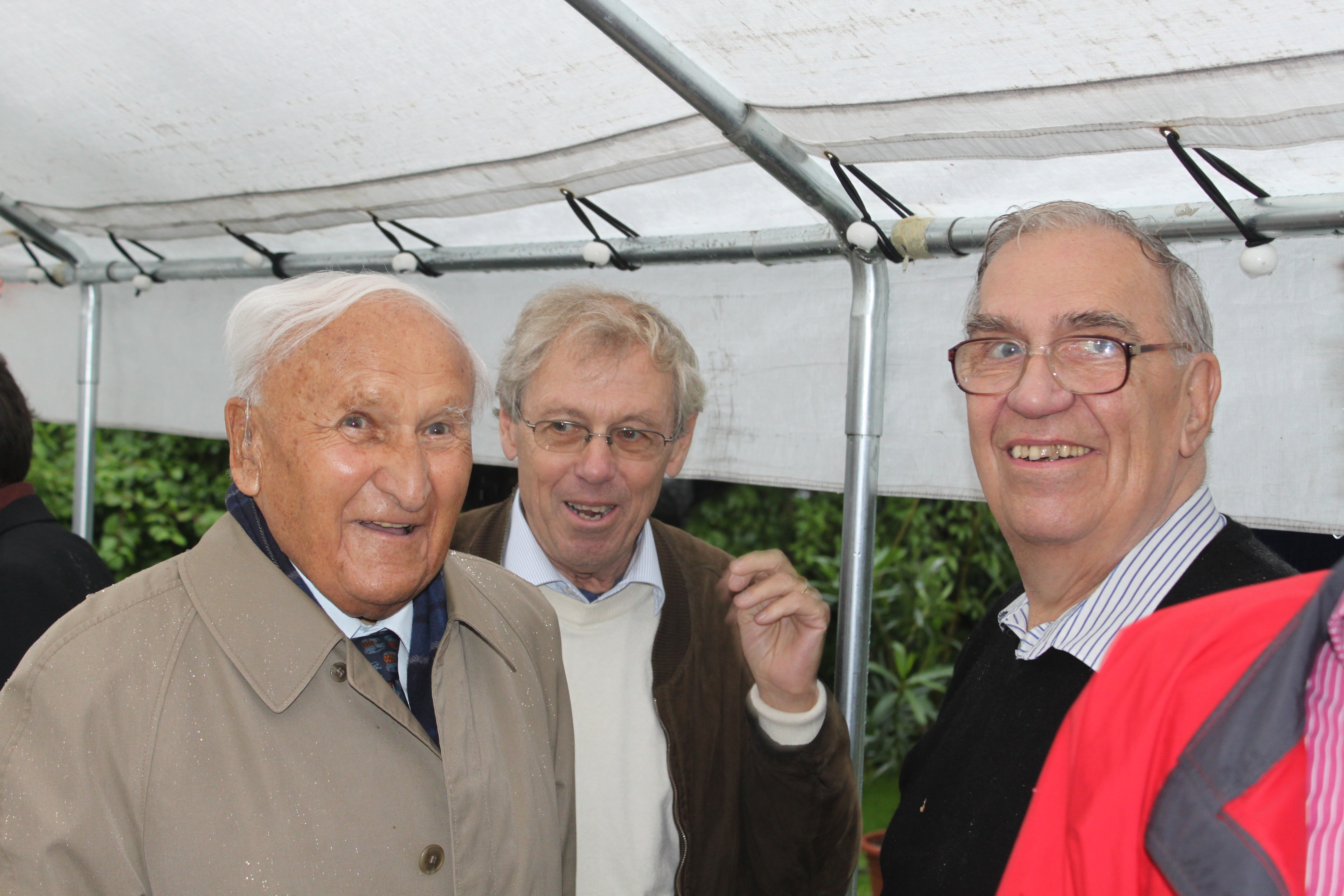 Photographs showing Ernst Helmreich, Franz Hofmann and Günter Schultz (from left)